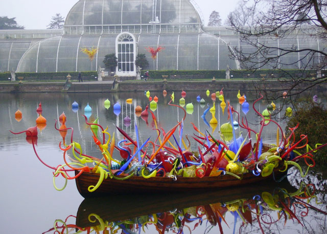 Chihuly glass in boat, morning, Palm House